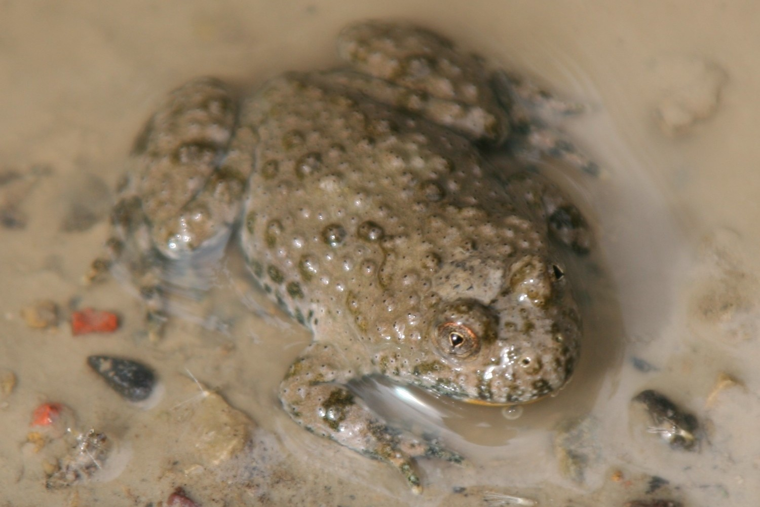 Yellow-bellied toad (Bombina variegata) photographed in Weinsberg